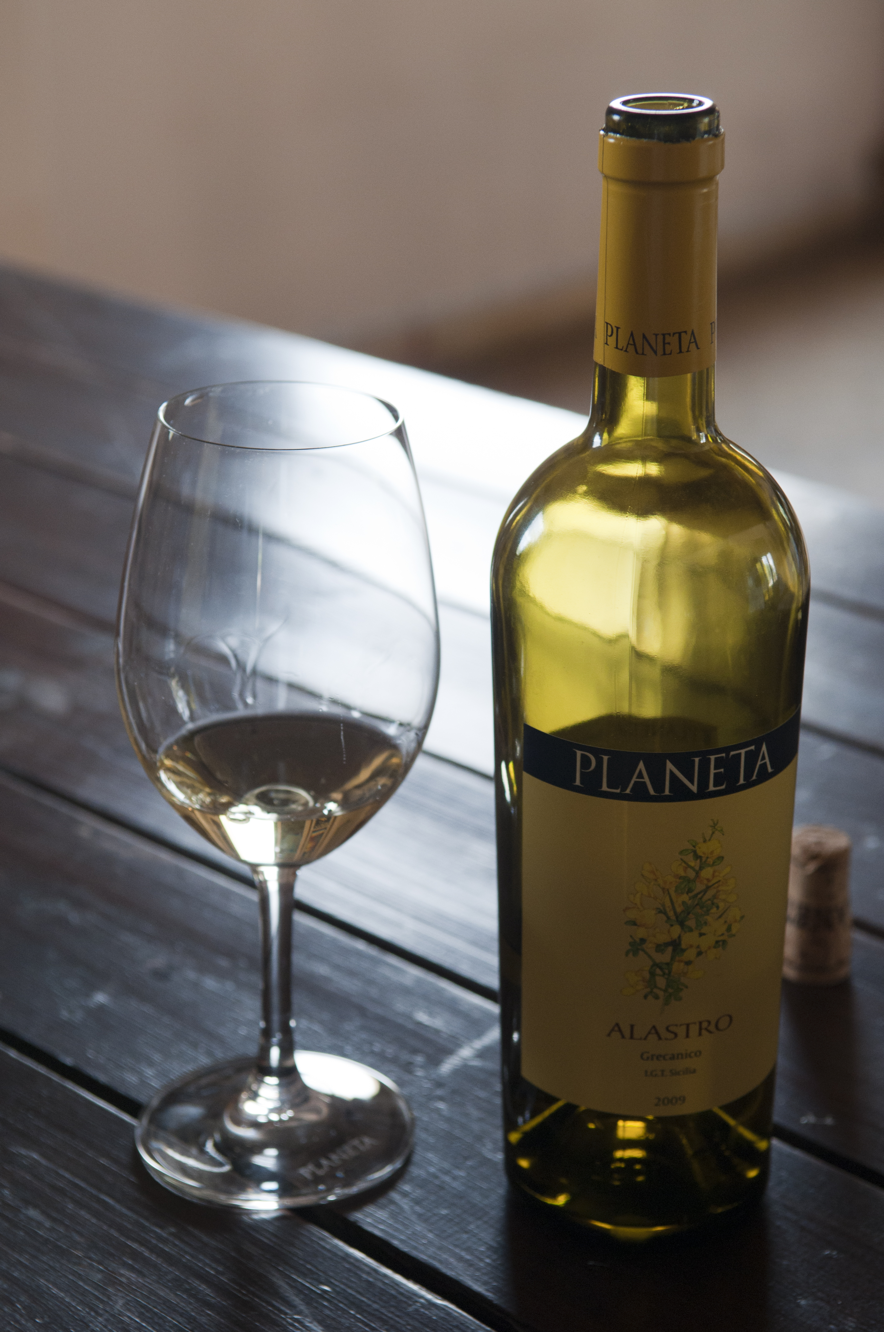 White Italian wine made from the Grecanico (Garganega) grape in Sicily.